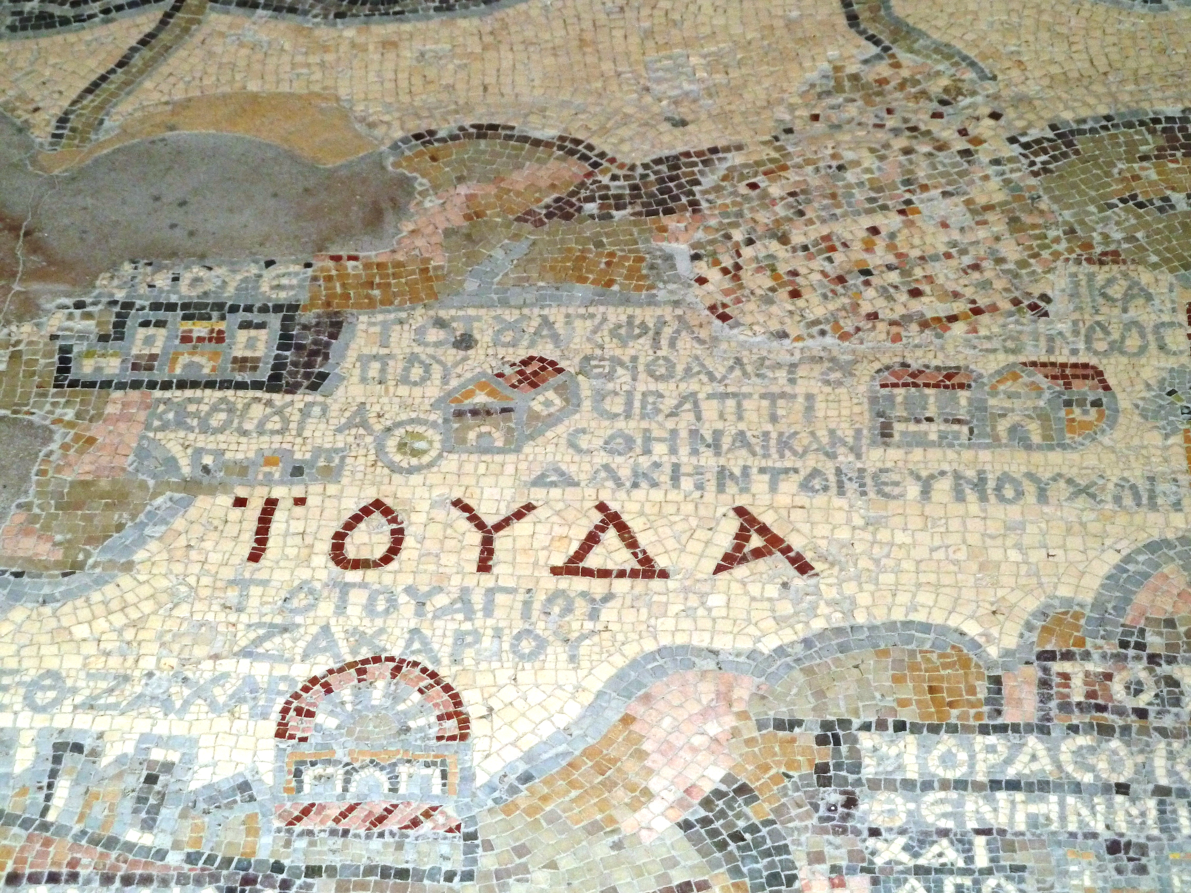 Byzantine floor mosaic map at St. George Church, Madaba, Jordan